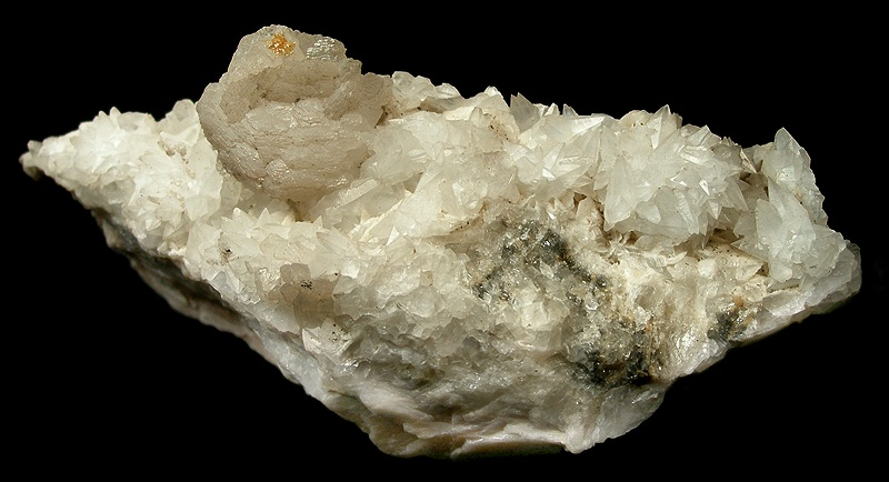 Alstonite, Witherite Locality: Brownley Hill Mine (Bloomsberry Horse Level), Nenthead, Alston Moor District, North Pennines, North and Western Region (Cumberland), Cumbria, England, UK (Locality at ) Size: small cabinet, 9.7 x 4.1 x 3.7 cm Alstonite with Witherite This rich specimen dates back to , I would expect, the heyday here in the mid-1800s. It is covered by very sharp, alstonites to 6mm. Atop is a 2-cm cluster of witherite, as well. I think the orange dot atop is the remnant of a very old glue label. In any case, its surprisingly an attractive specimen, although there is some value to the even more attractively prepared, and exhaustively descriptive, old labels!